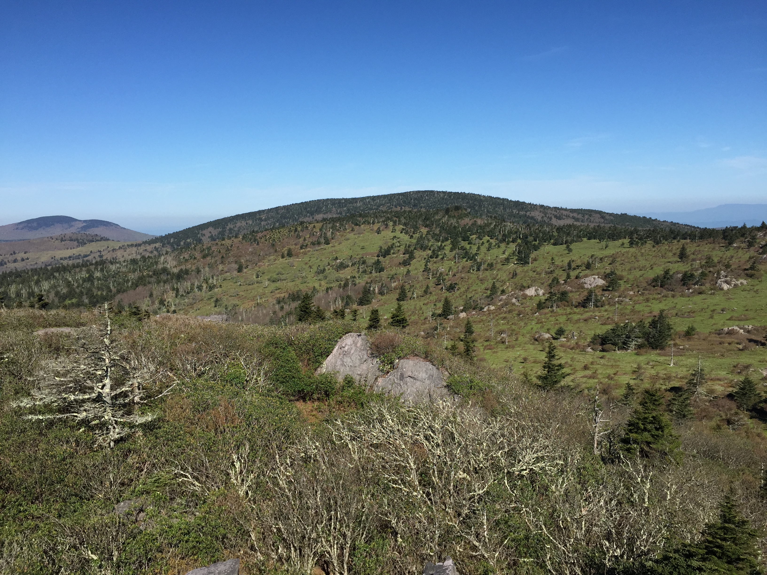 View west-northwest towards Mount Rogers from the northern rocky outcrop along the Wilburn Ridge Trail within the Mount Rogers National Recreation Area in Grayson County, Virginia